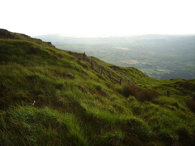 Mount Gabriel. The ridge west of the summit. Long grass and hard going. View along the Mizen Head peninsula.